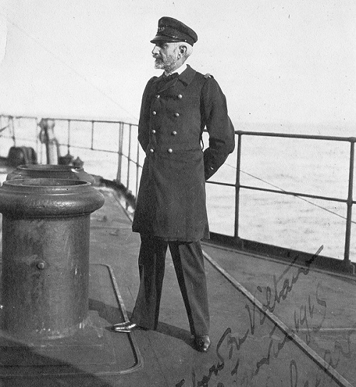 French admiral and politician Lucien Lacaze (1860-1955)